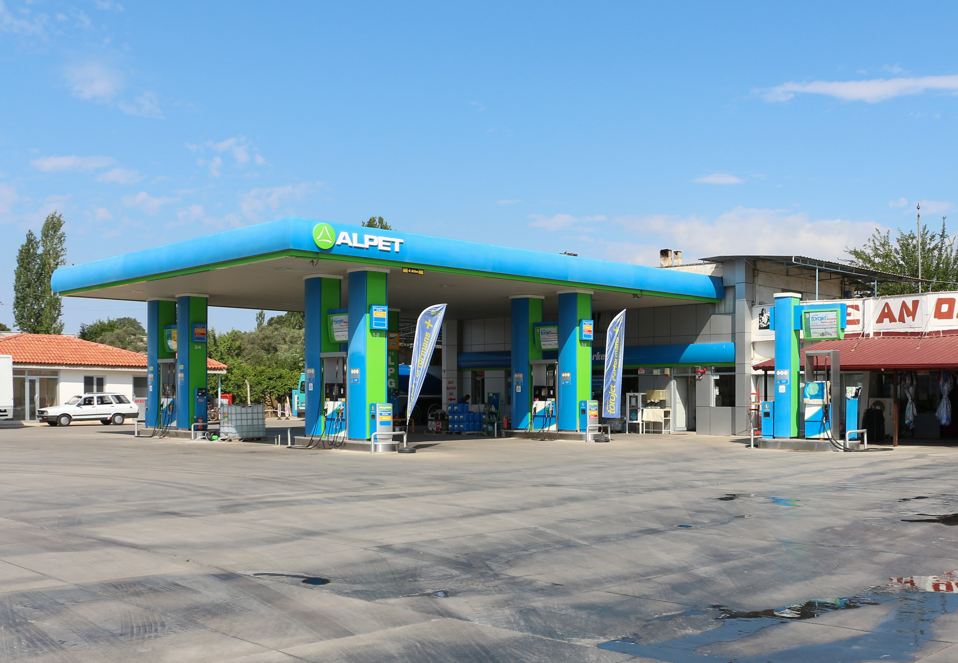 Alpet petrol station near Pamukkale, Turkey